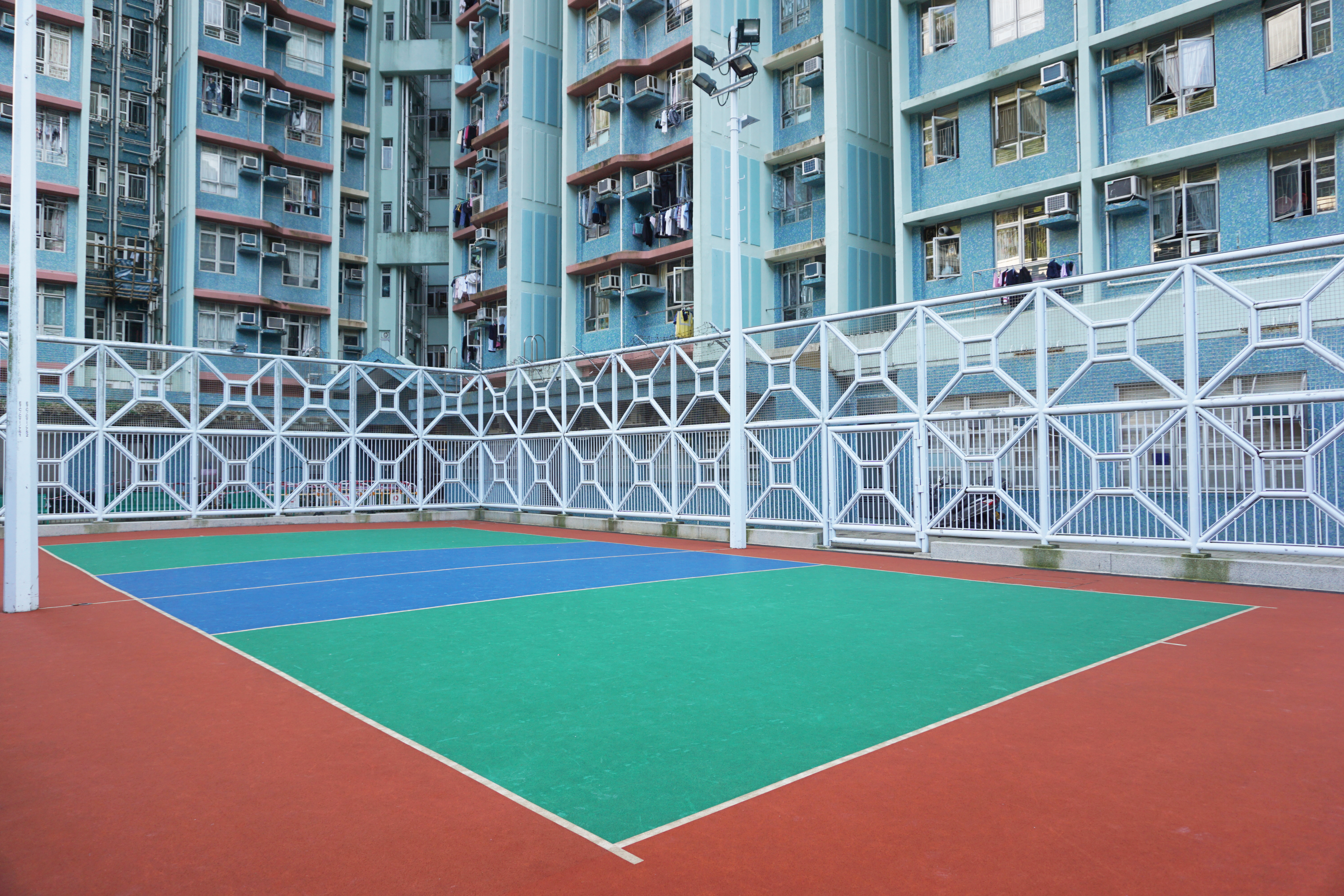 Tsz Ching Estate in Tsz Wan Shan, Hong Kong.